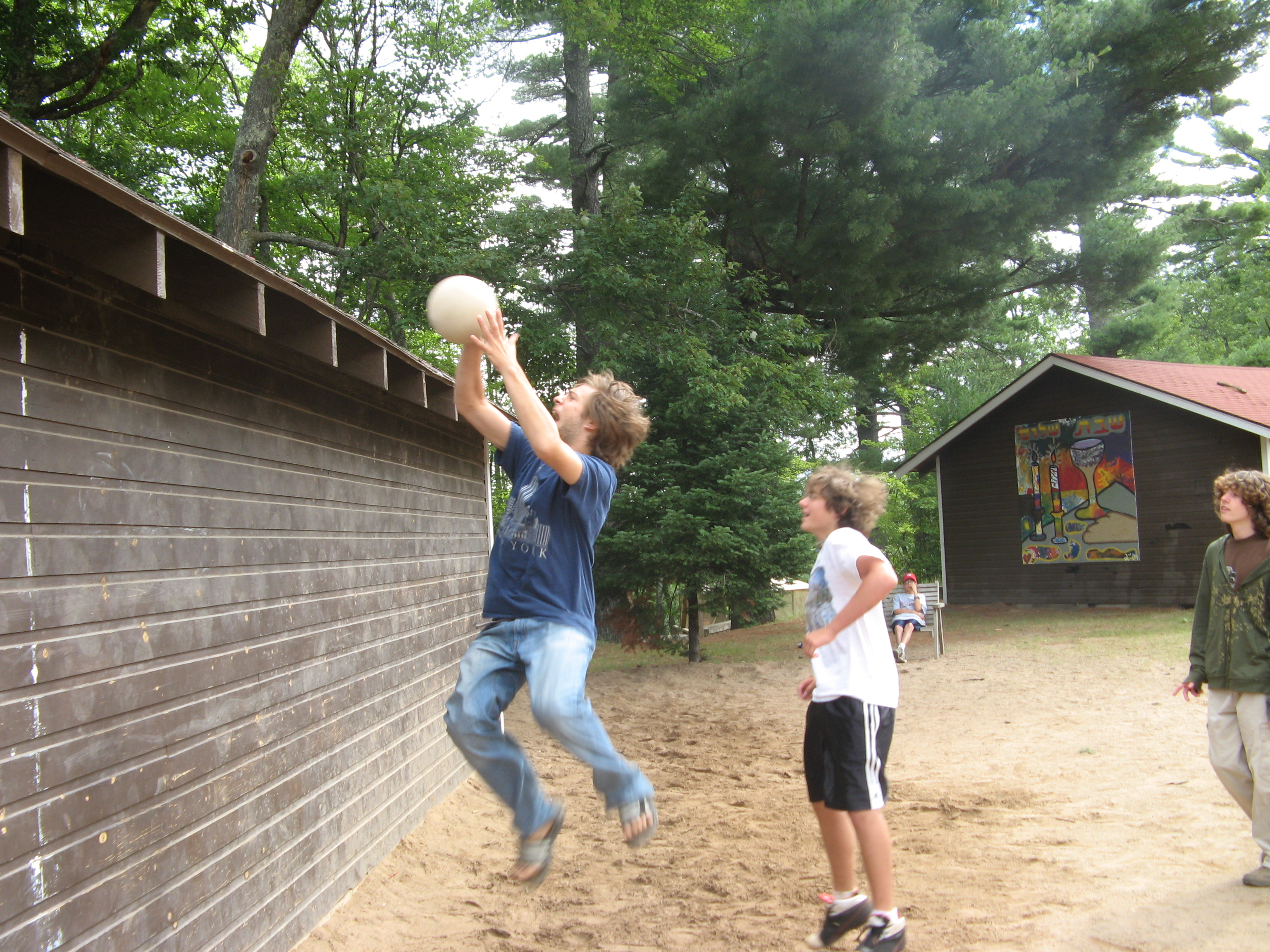 One of the game's greatest legends, Ben Golopol, in the midst of a chilling reverse scooby.